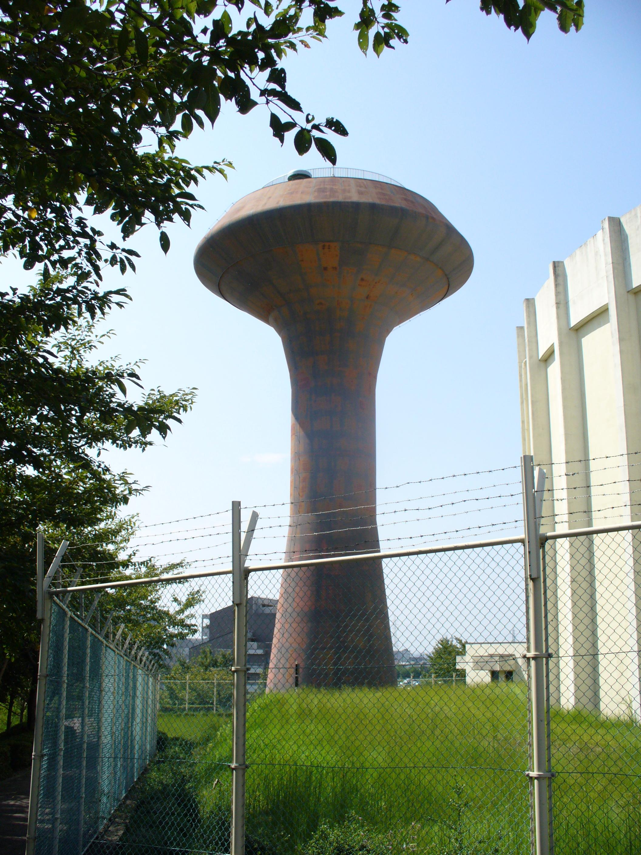 Photograph of Toukadaichuoukouen water tower, taken in Komaki city, Aichi, Japan.